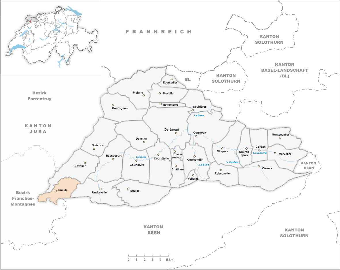 Municipality Saulcy